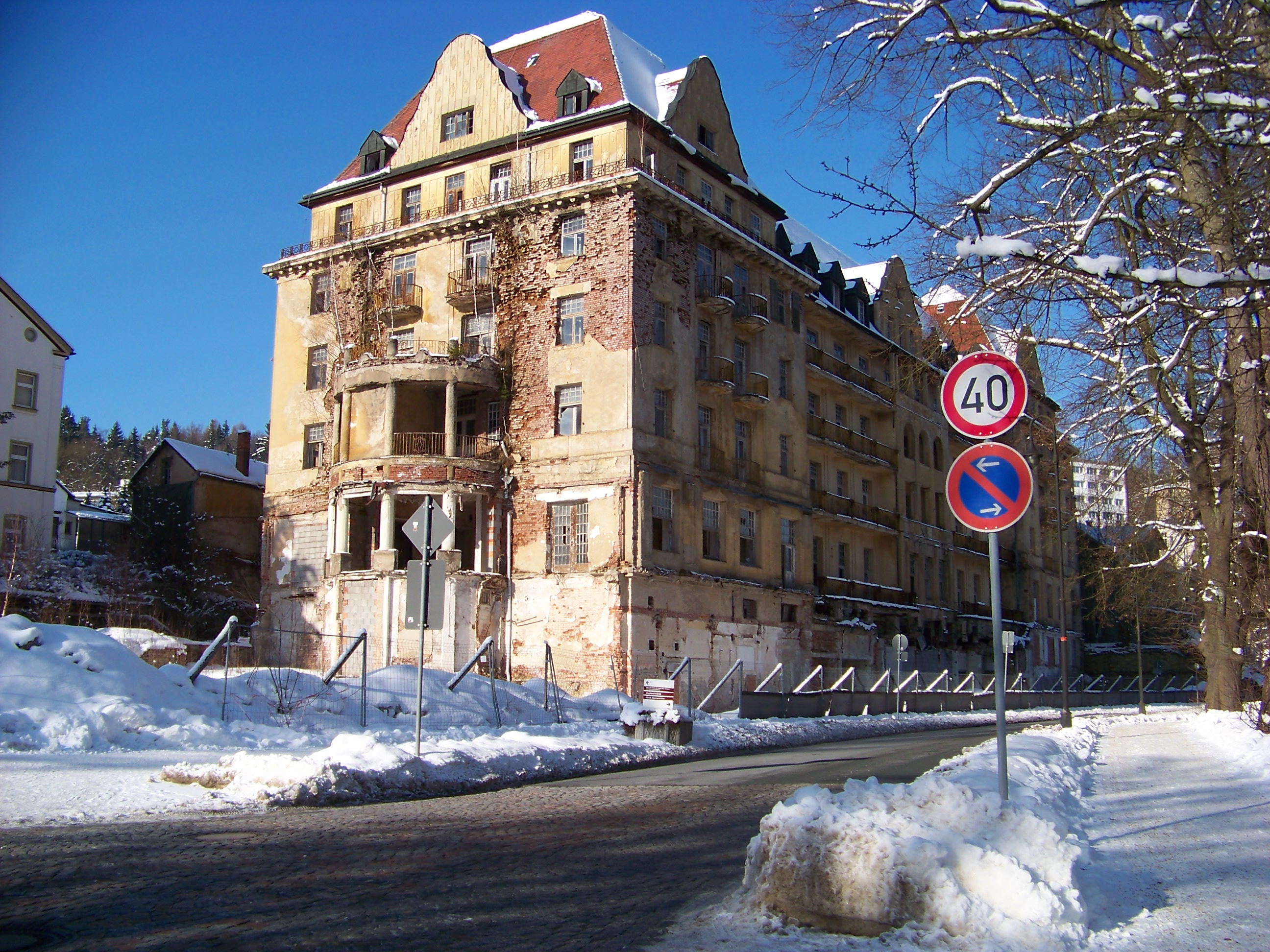 Hotel "Wettiner Hof", Bad Elster, Saxonia